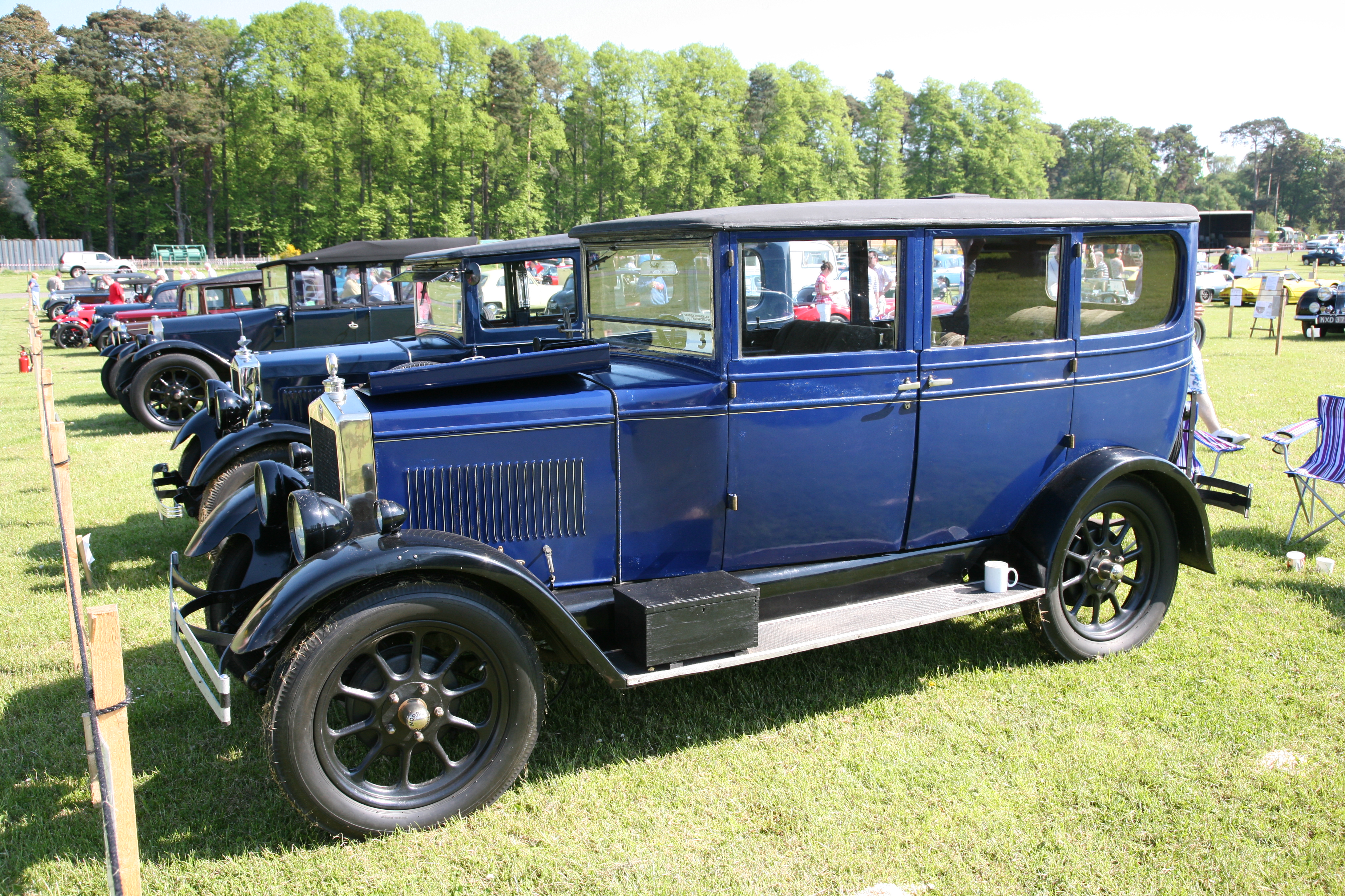 1927 Morris Oxford 1697cc Flat Nose